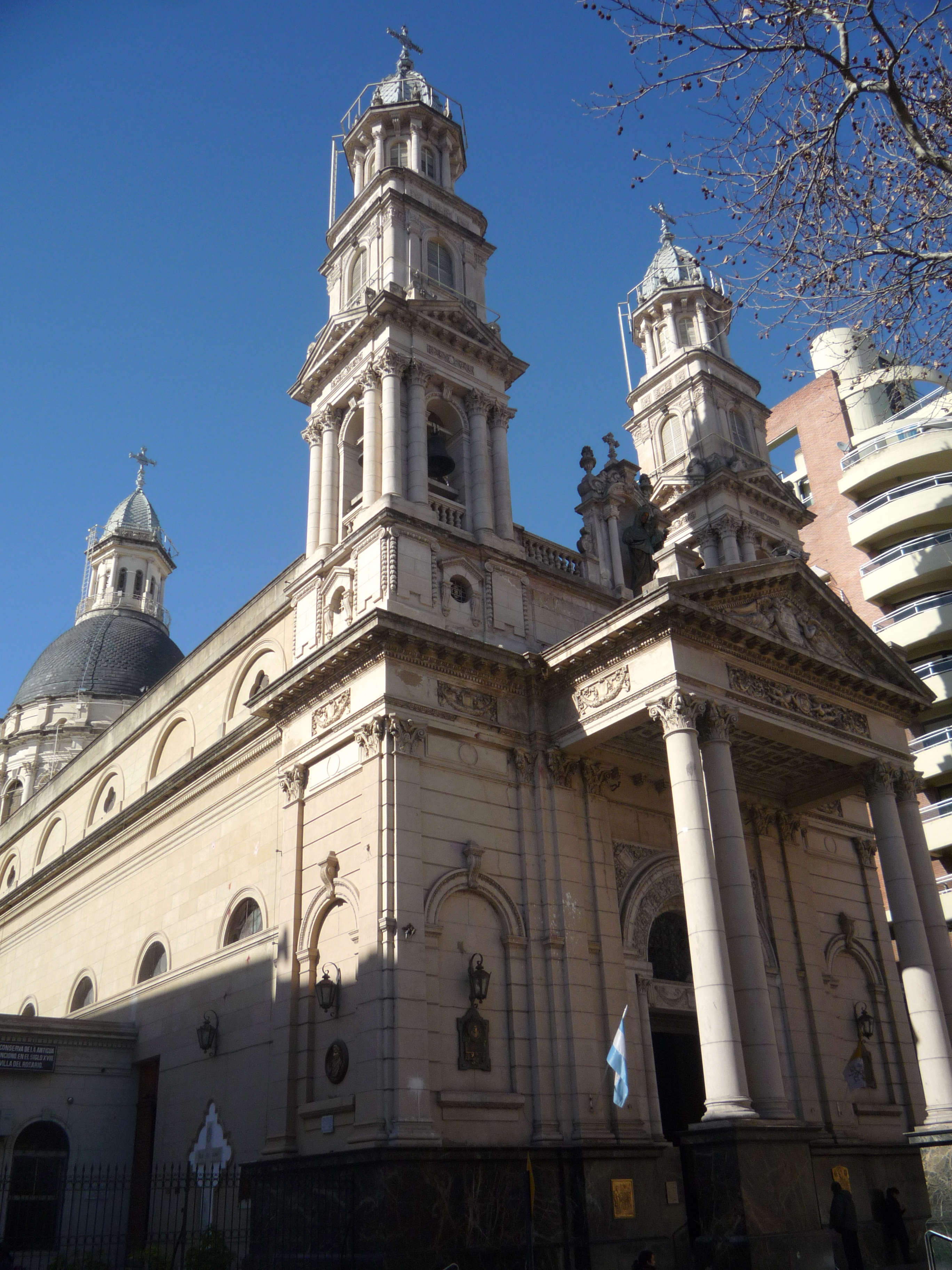 Catedral de Rosario (Argentina)